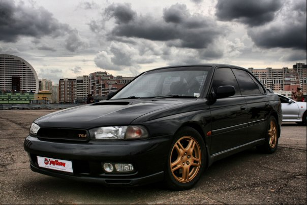 Subaru Legacy TS-R 1994-1999